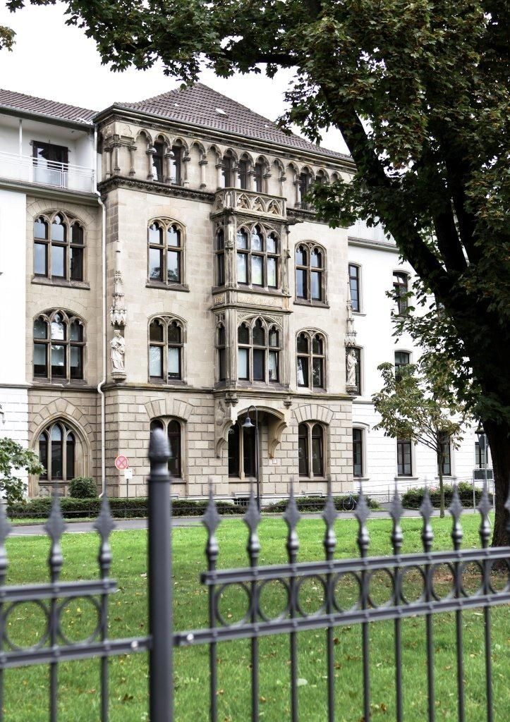 St. John's Hospital in Bonn